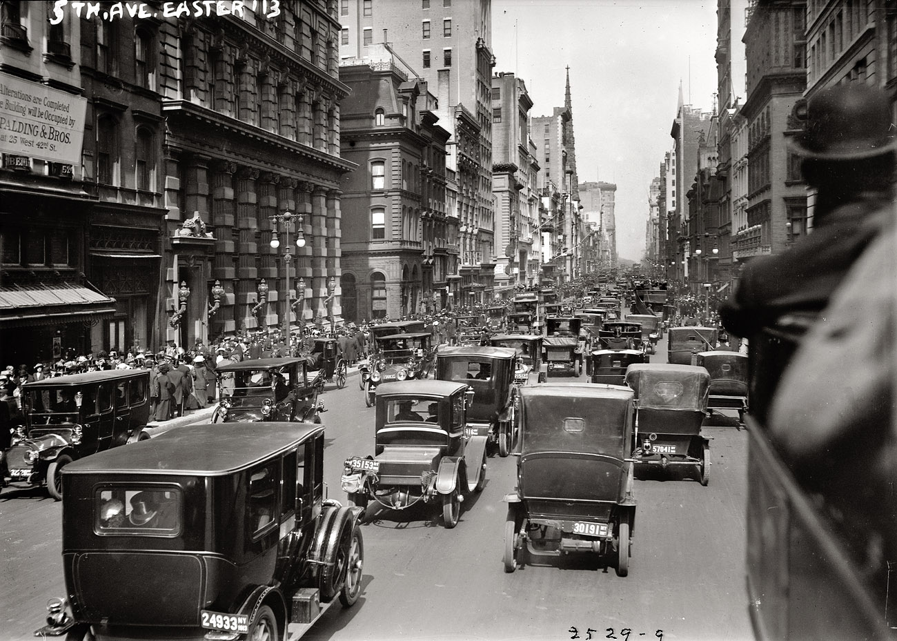 5th Avenue, New York City